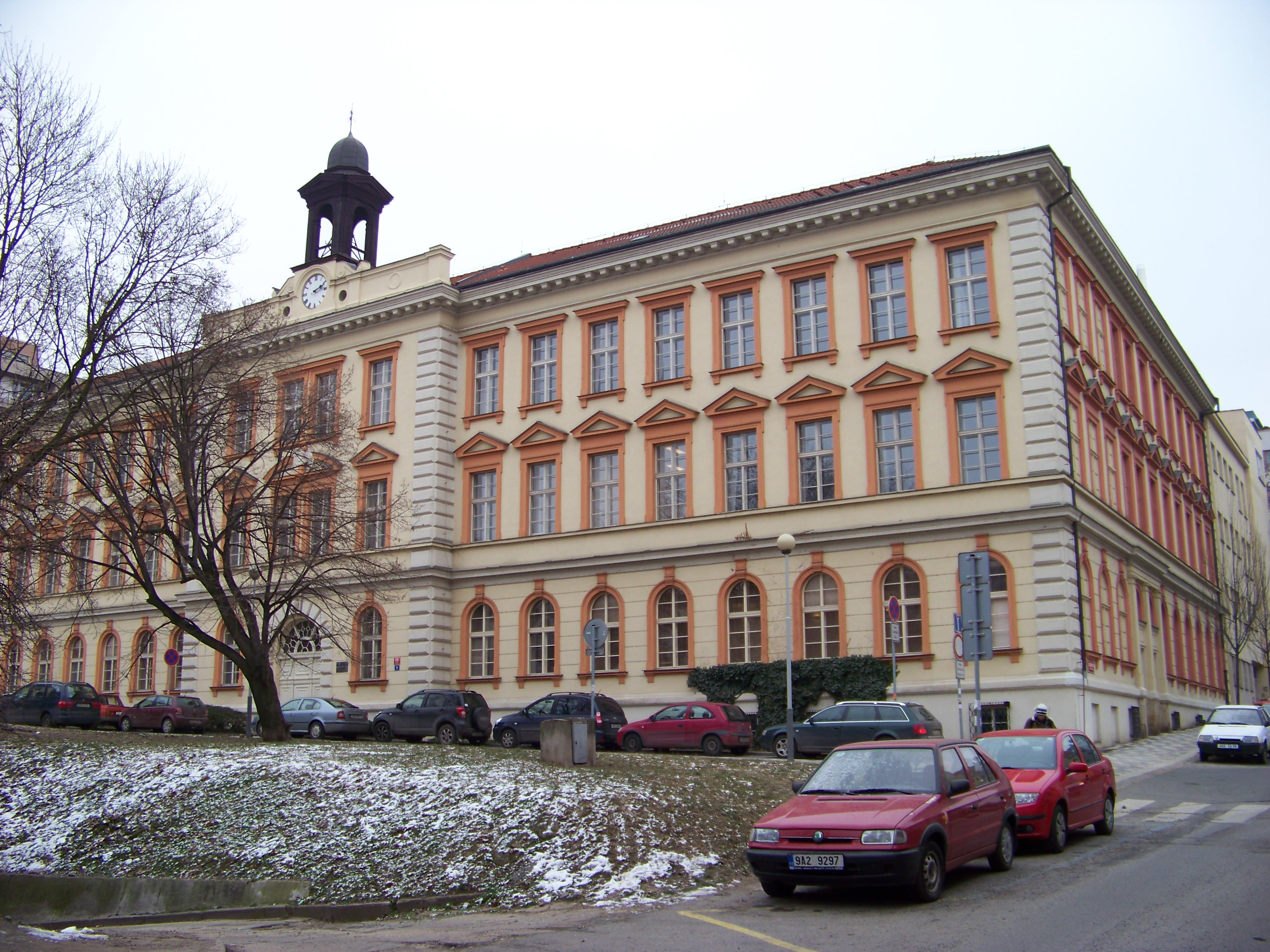 Prague-Žižkov, the Czech Republic. - Google Maps - Google Earth